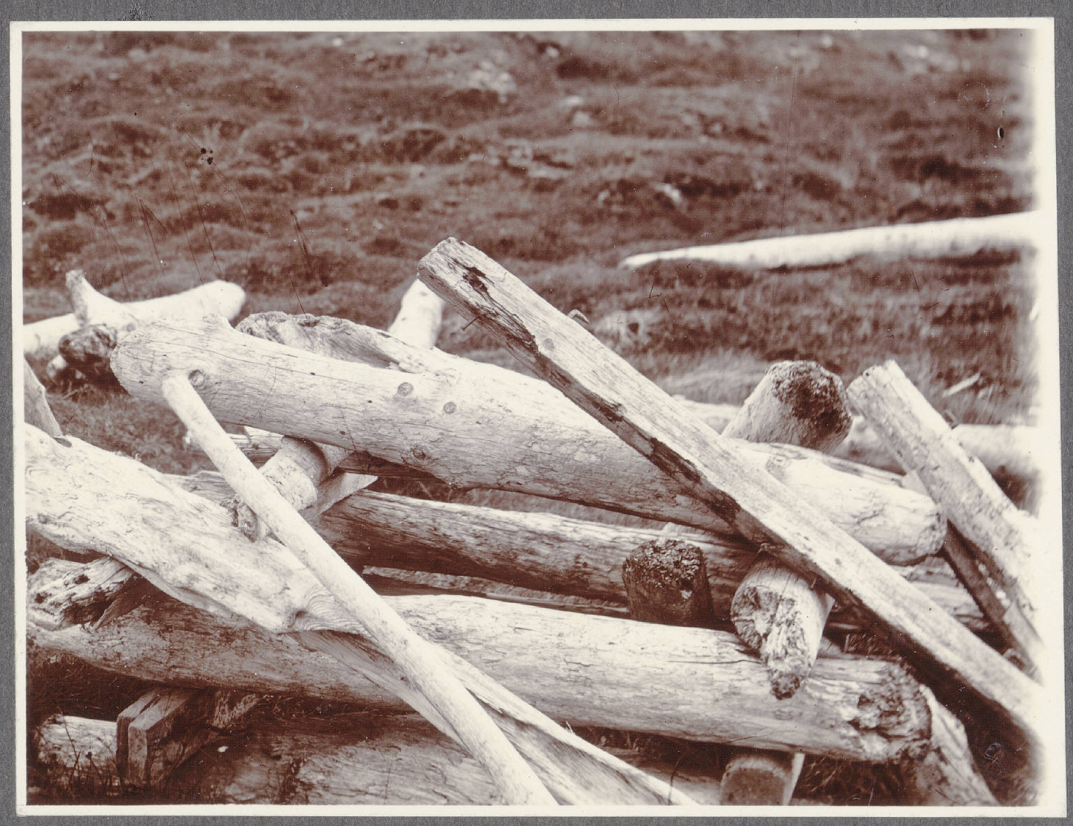 Collection: Icelandic and Faroese Photographs of Frederick W.W. Howell, Cornell University Library Title: Drift wood. Herdísarvík, near Krísuvík. Date: ca. 1900 Place: Herdísarvík (Iceland) Medium: collodion print Repository: Fiske Icelandic Collection, Rare & Manuscript Collections, Cornell University Library Accession: 1923.3.07 URL: Persistent URI: There are no known U.S. copyright restrictions on this image. The digital file is owned by the Cornell Univeristy Library which is making it freely available with the request that, when possible, the Library be credited as its source. We had some help with the geocoding from Web Services by Yahoo!